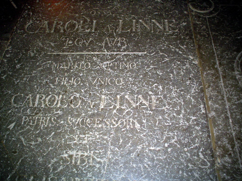 The gravestone of Carl von Linné (a.k.a Carl Linnaeus) and his son Carl Linnaeus the Younger in the cathedral of Uppsala